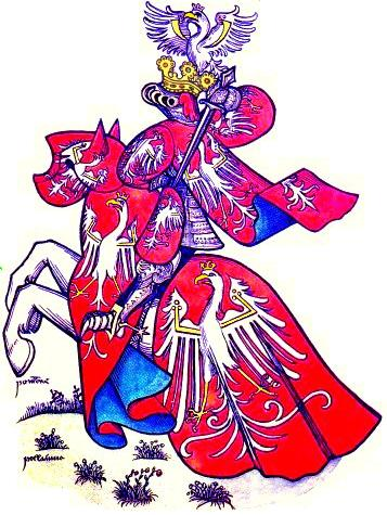 King of Poland in tournamental armour. Miniature from Armorial equestre de la Toison d'Or.